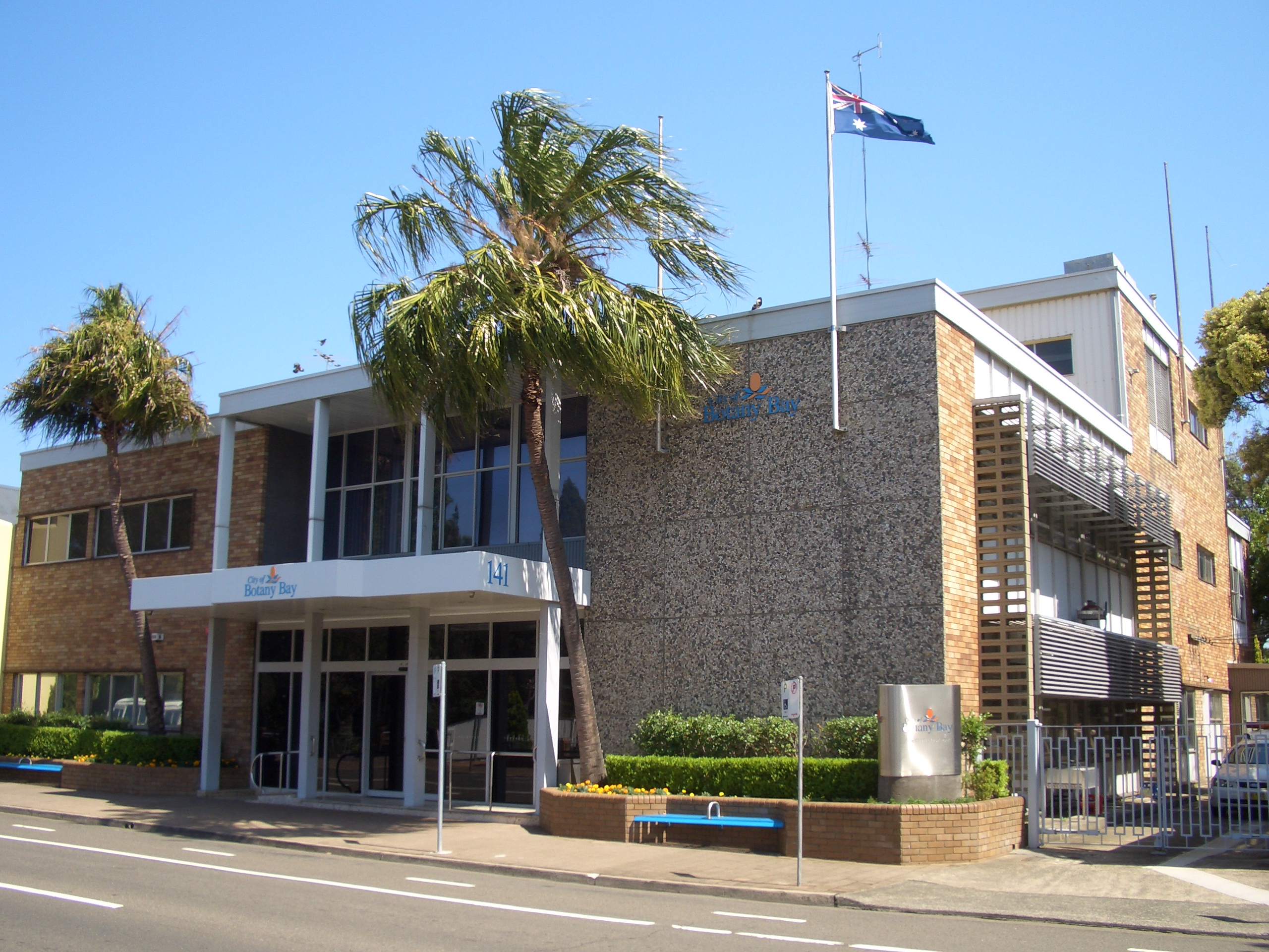 City_of_Botany_Bay Admin